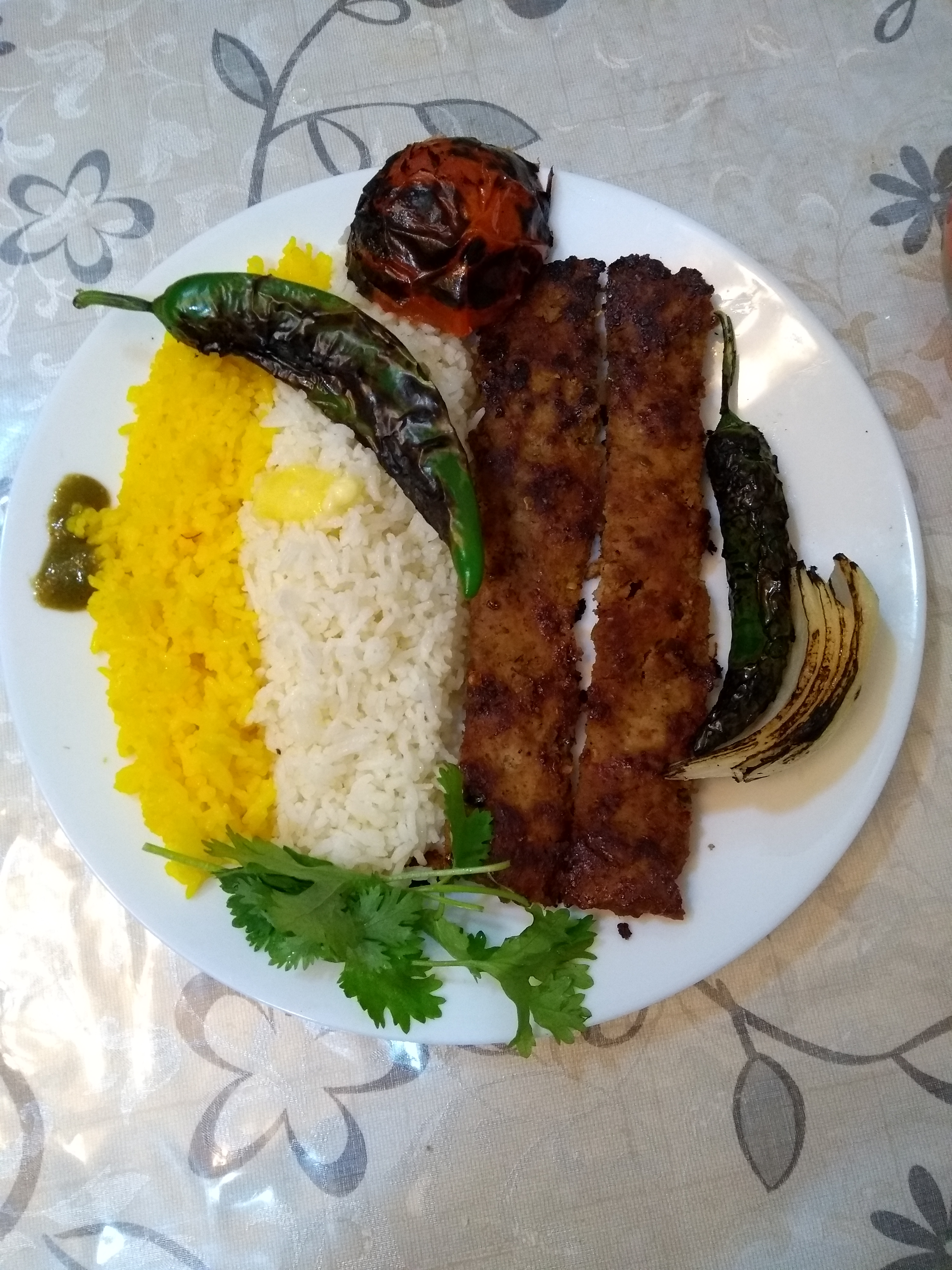 Chelo Kabab made at home in Ras Tanurah Saudi Arabia